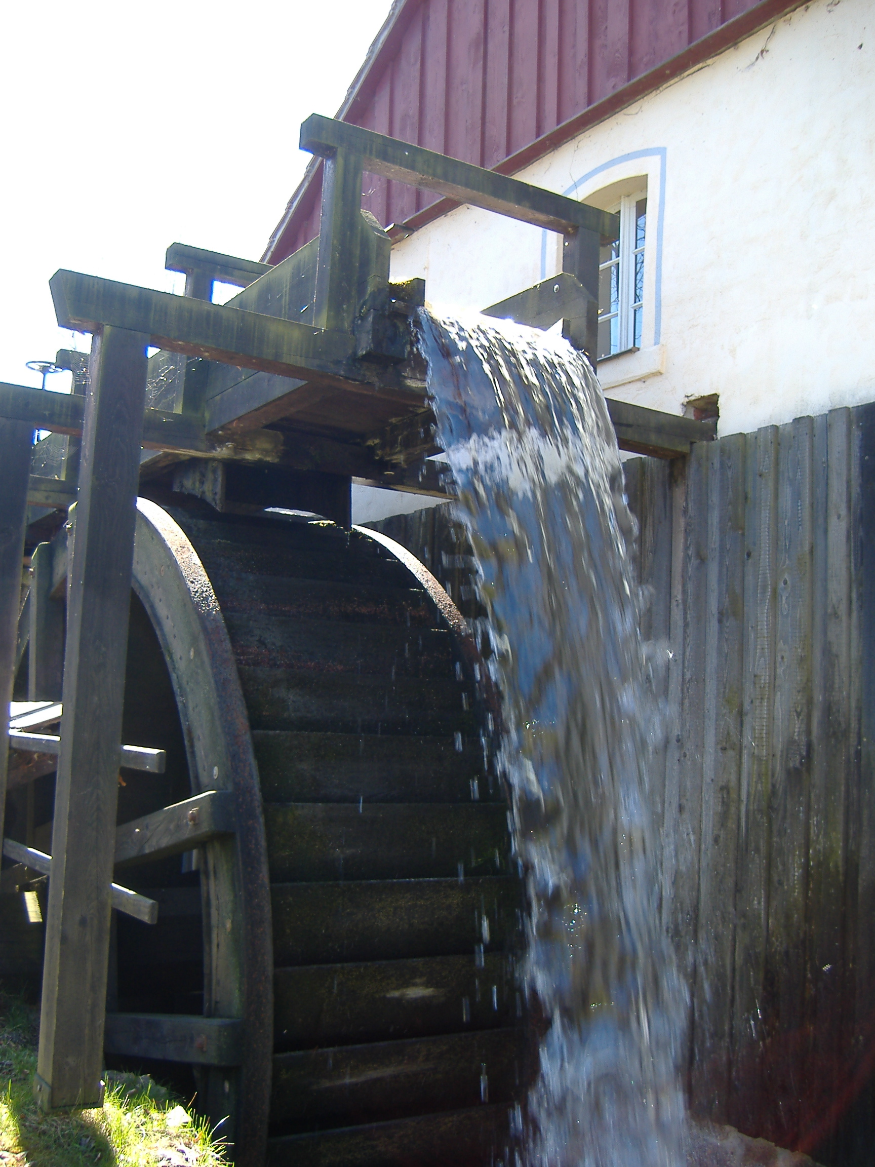 Water mill in Gospersgruen, Saxony, Germany.